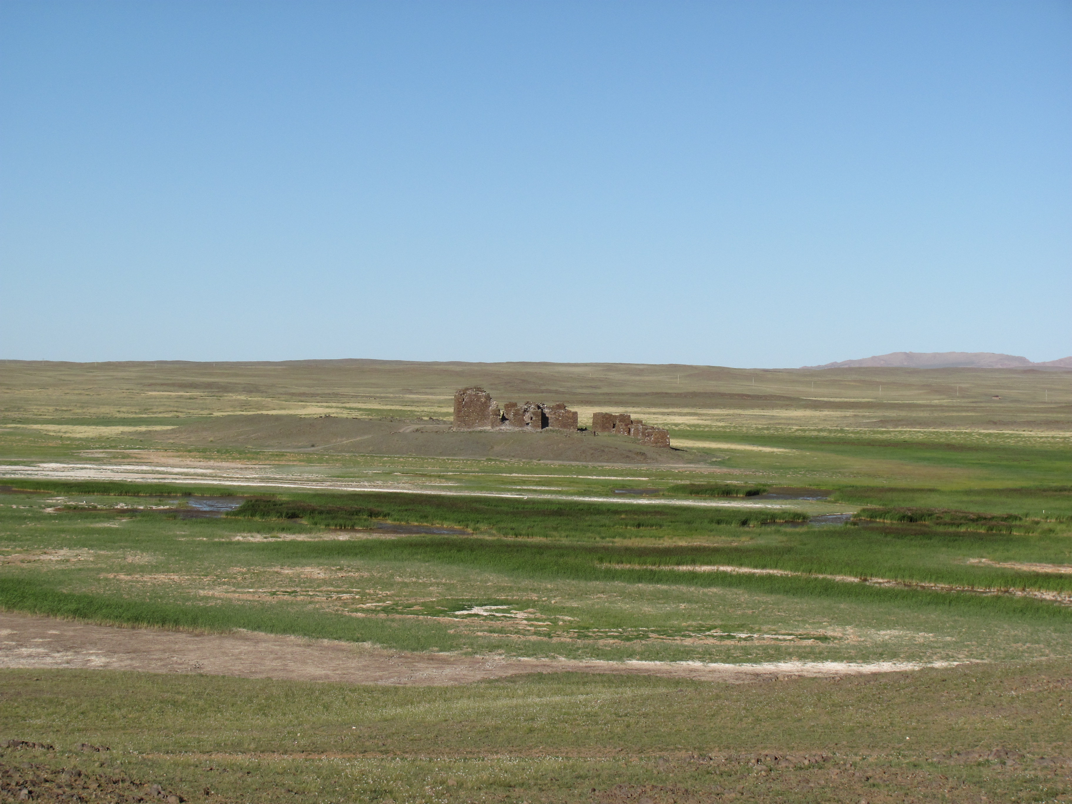 Süm Khökh Burd Temple, Dundgov Aimag, Mongolia.